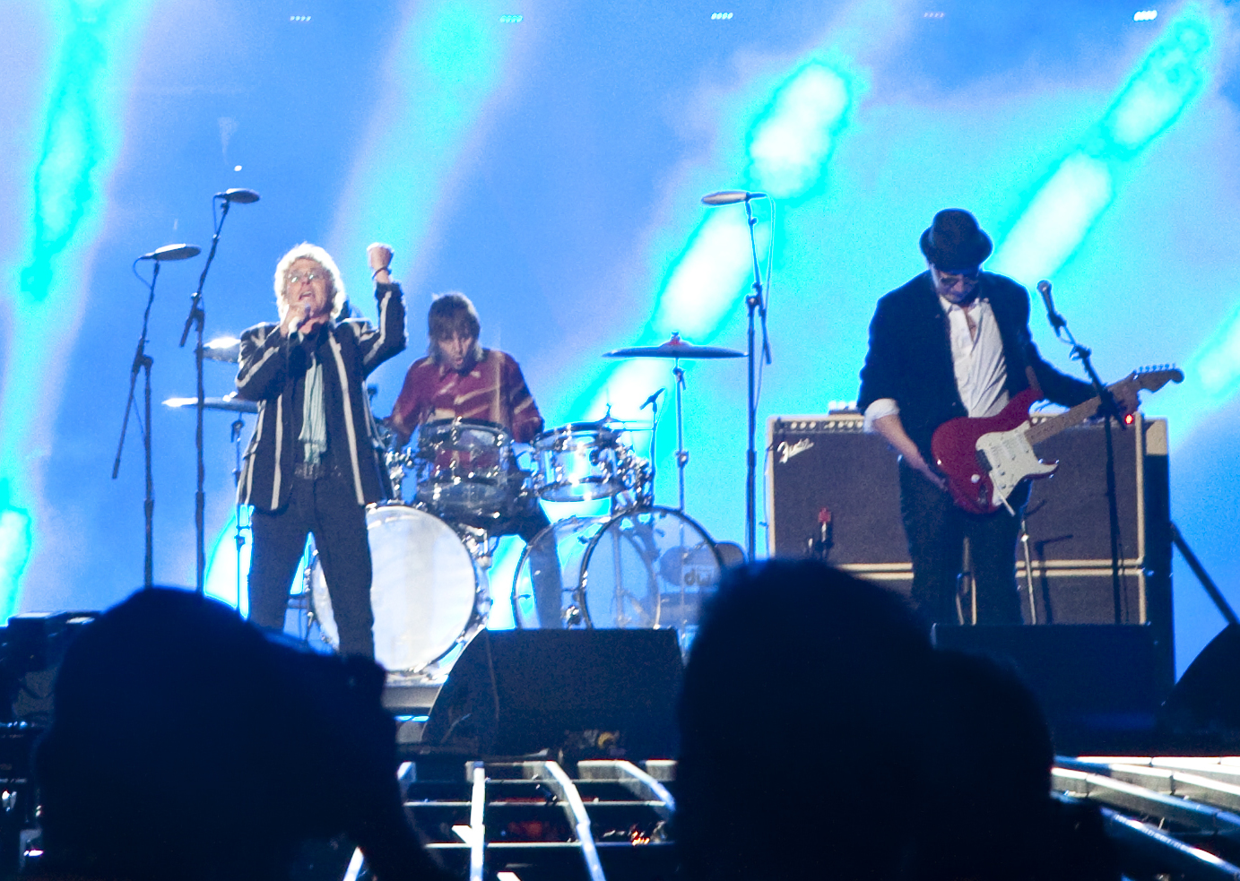 see more at